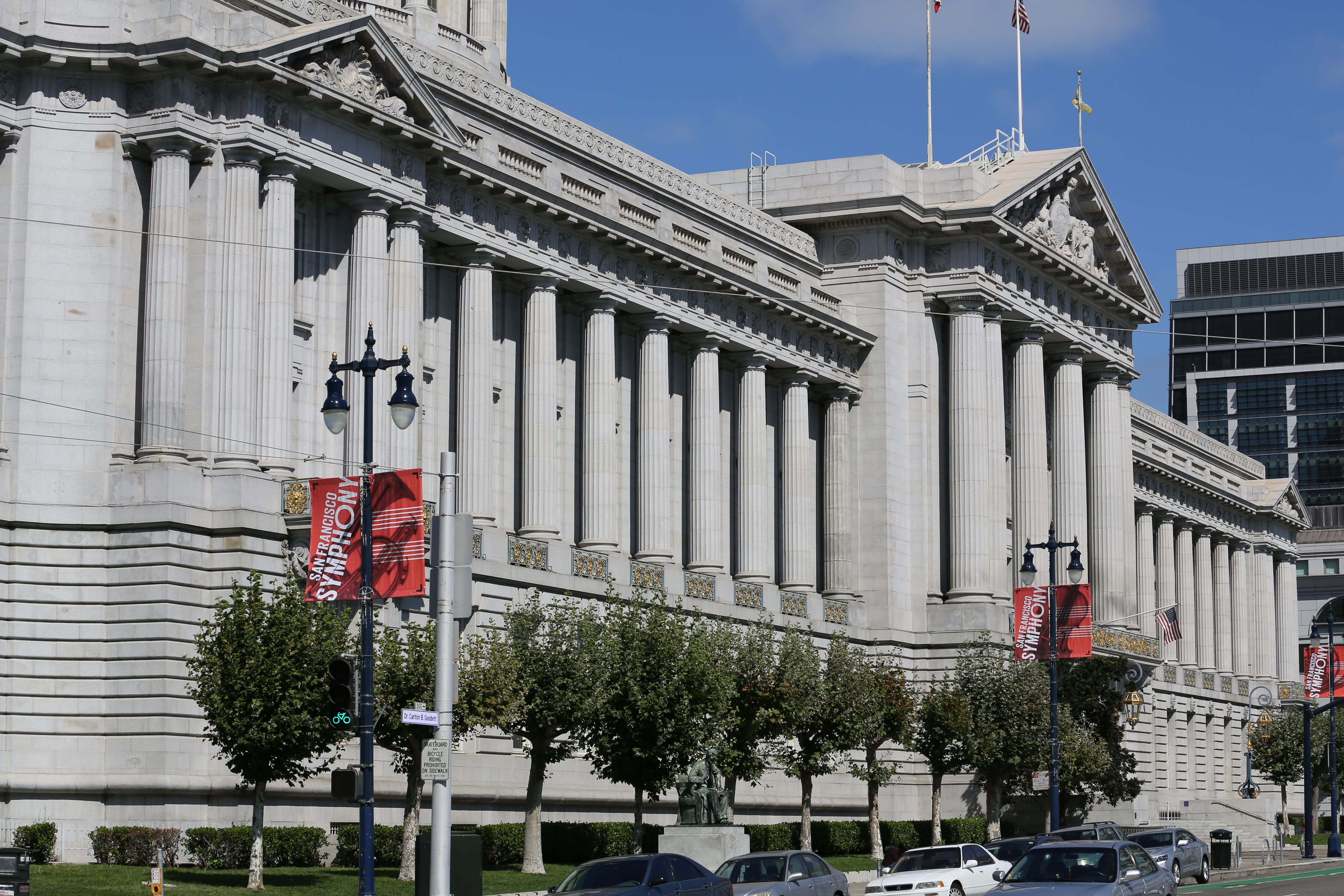 San Francisco City Hall (TK6)